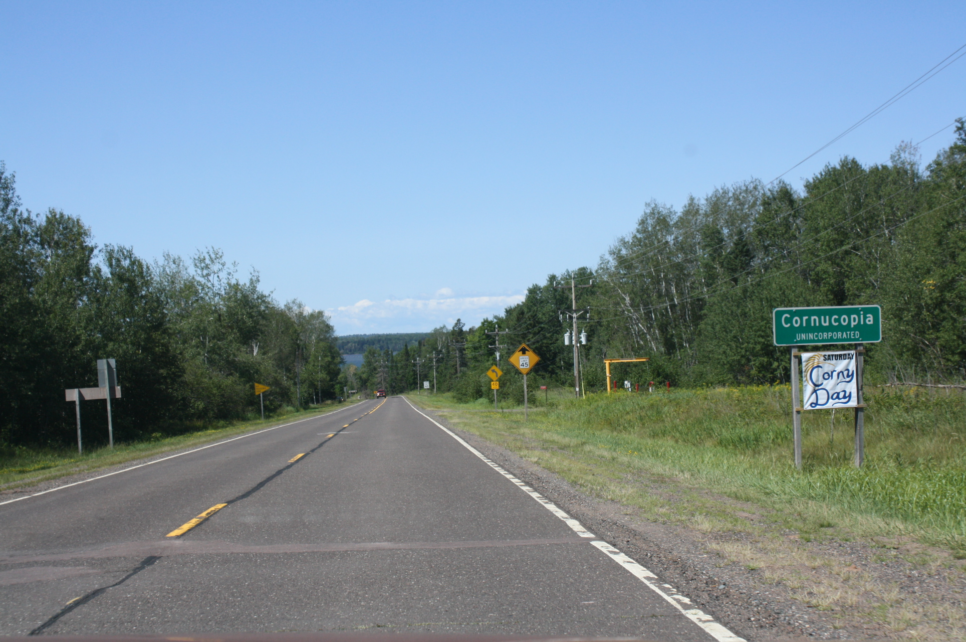 The sign for Cornocopia, Wisconsin on Wisconsin Highway 13.